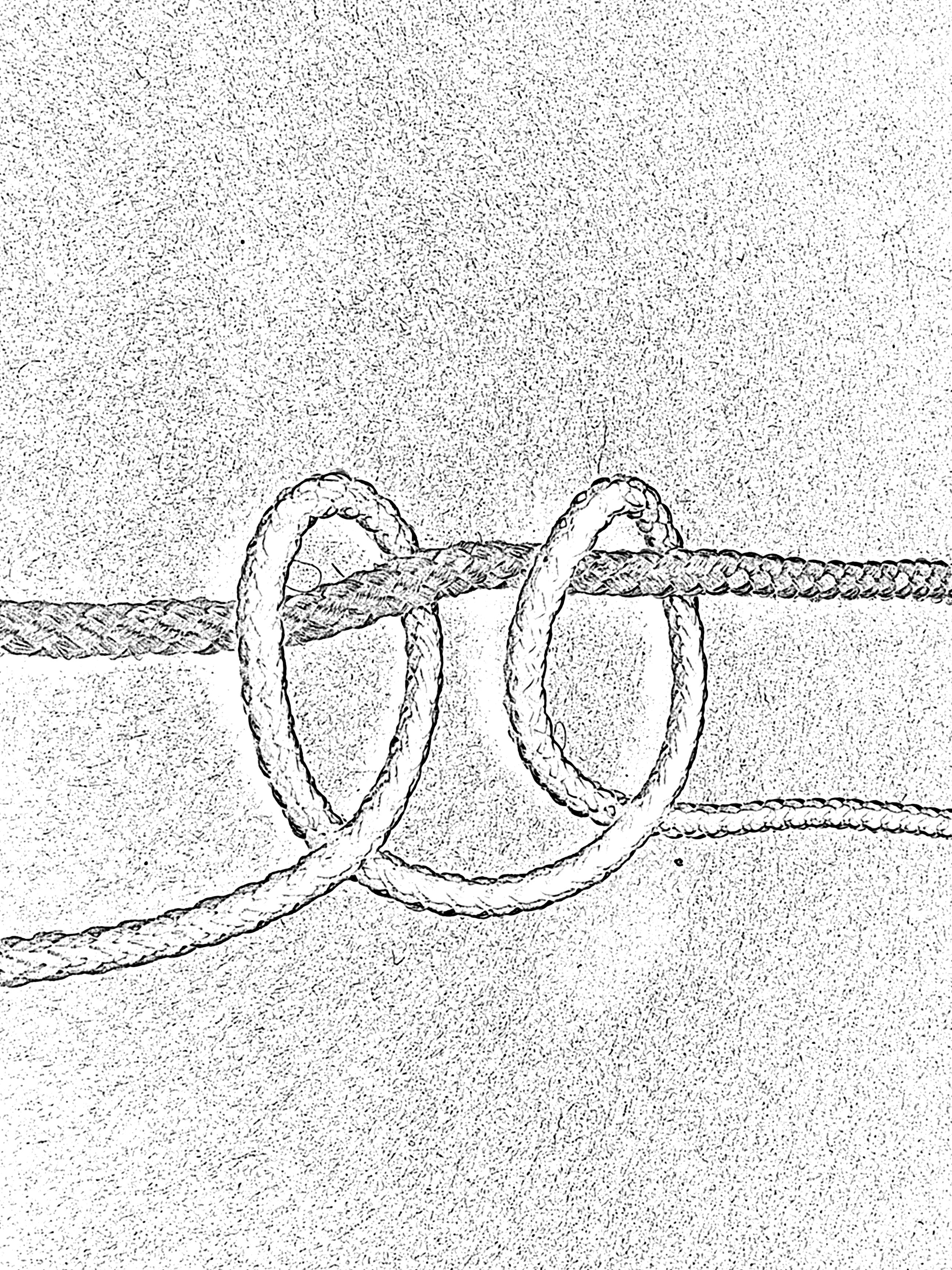 Macrame knot: clove hitch: loop to the left.